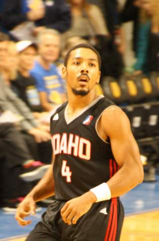 Phil Pressey of Idaho Stampede